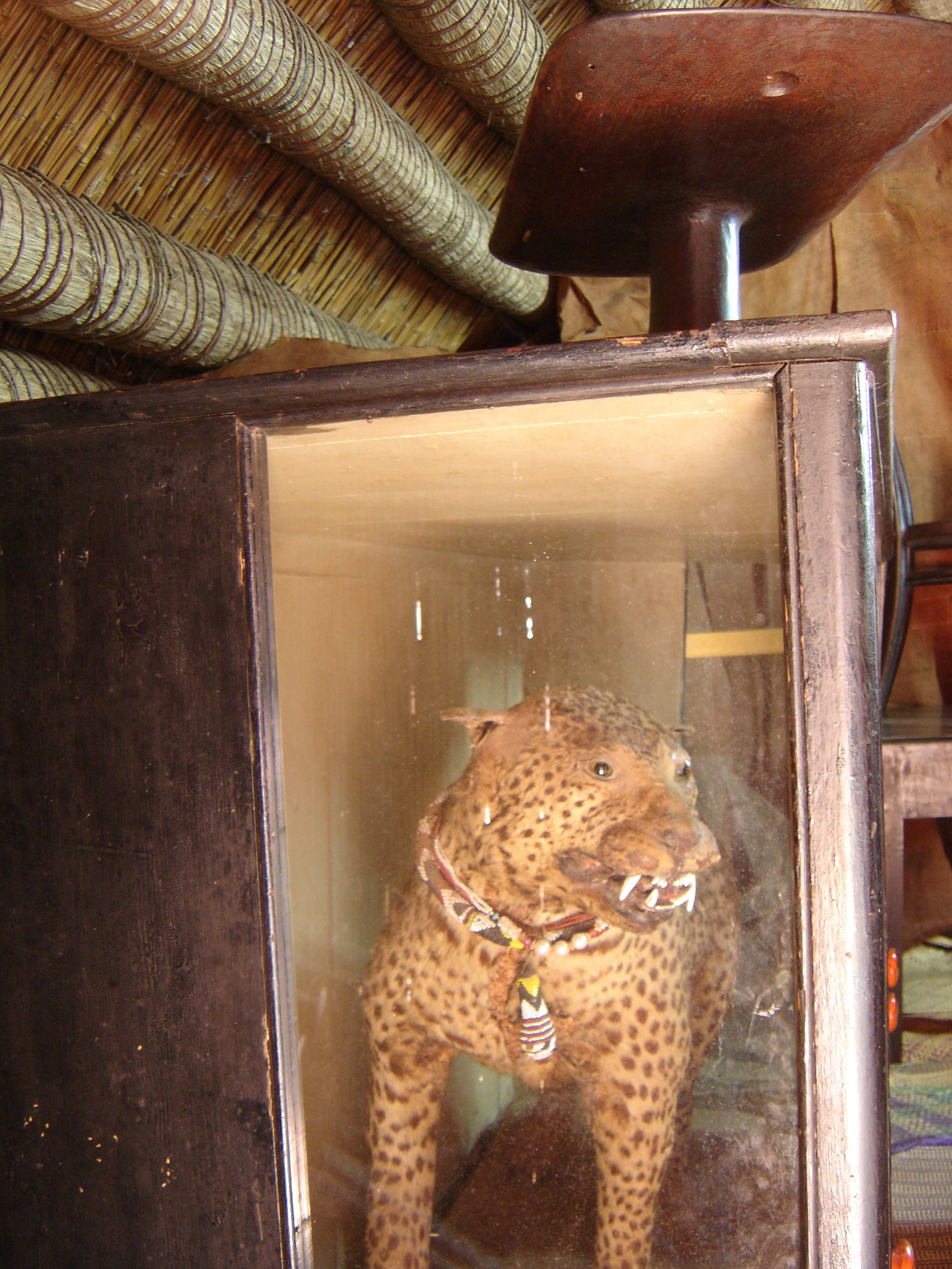 This was the pet leopard of one of the old kings. After the kings death, the panther was hard to control and kept killing people, so they stuffed it and placed it in the burial hut.